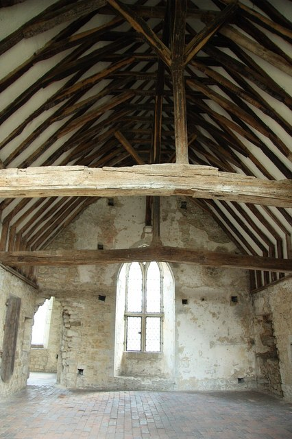 Old Soar Manor - solar. Principal room at Old Soar Manor 1596414 with a rare crown-post collar-purlin roof, one of the earliest surviving examples in the country